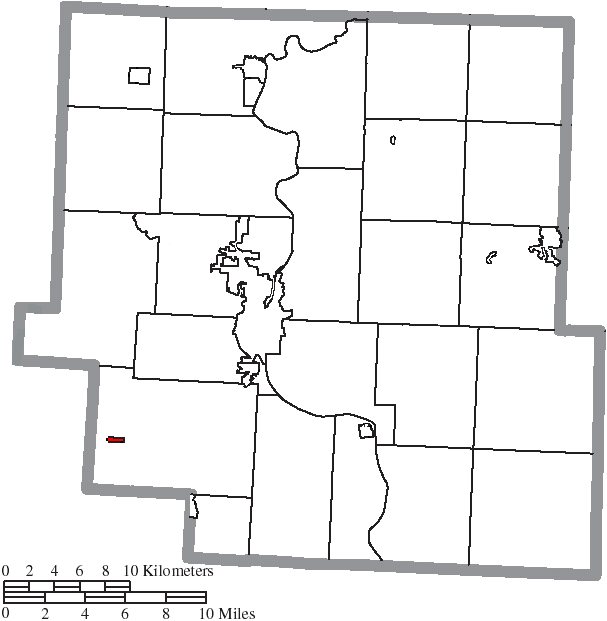 Map of the municipal and township boundaries of Muskingum County, Ohio, United States, as of the 2000 census, with the location of the village of Fultonham highlighted. Township borders are shown only in unincorporated areas in order to differentiate incorporated and unincorporated areas more clearly.